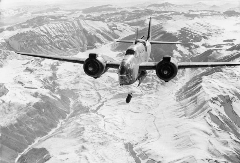 Royal Air Force- Italy, the Balkans and South East Europe, 1942-1945. A Martin Baltimore Mark IV of No. 223 Squadron RAF, flying from Celone, Italy, releasing 500-lb MC bombs over the target during a raid on the railway station and junction at Sulmona.